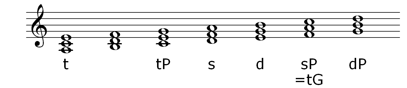 musical examples for harmonic functions 4